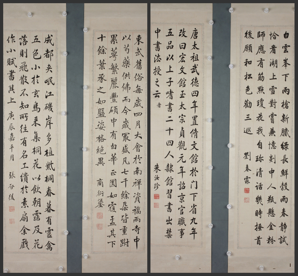 calligraphy by Liu Chunlin, Zhu Ruzhen, Shang Yanliu and Zhang Qihou